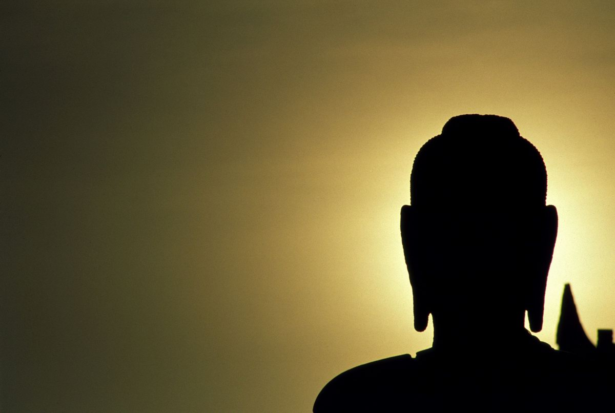 Sunset in Ayutthaya historical park